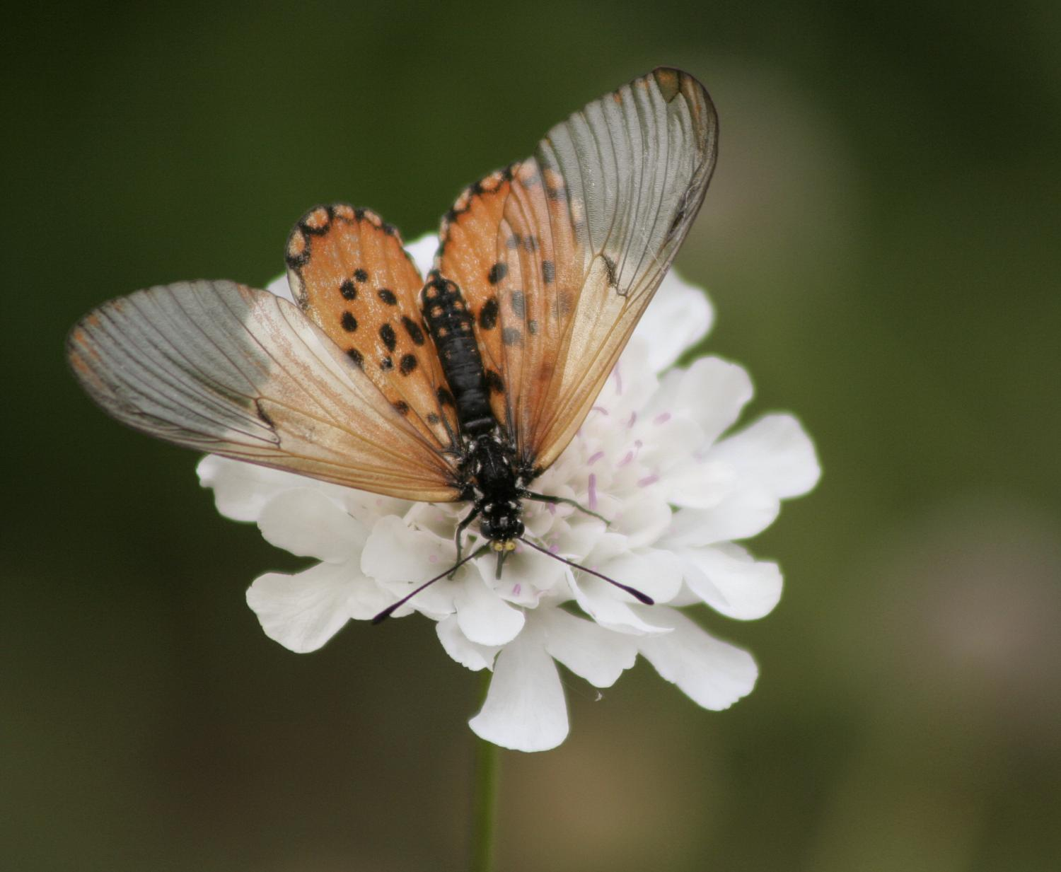 Acraea horta, also known as the Garden Acraea.